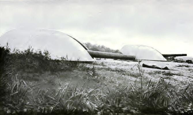 Caption: La défense d'Albertville, sur le Tanganyika. Canons de 160 sous coupole.